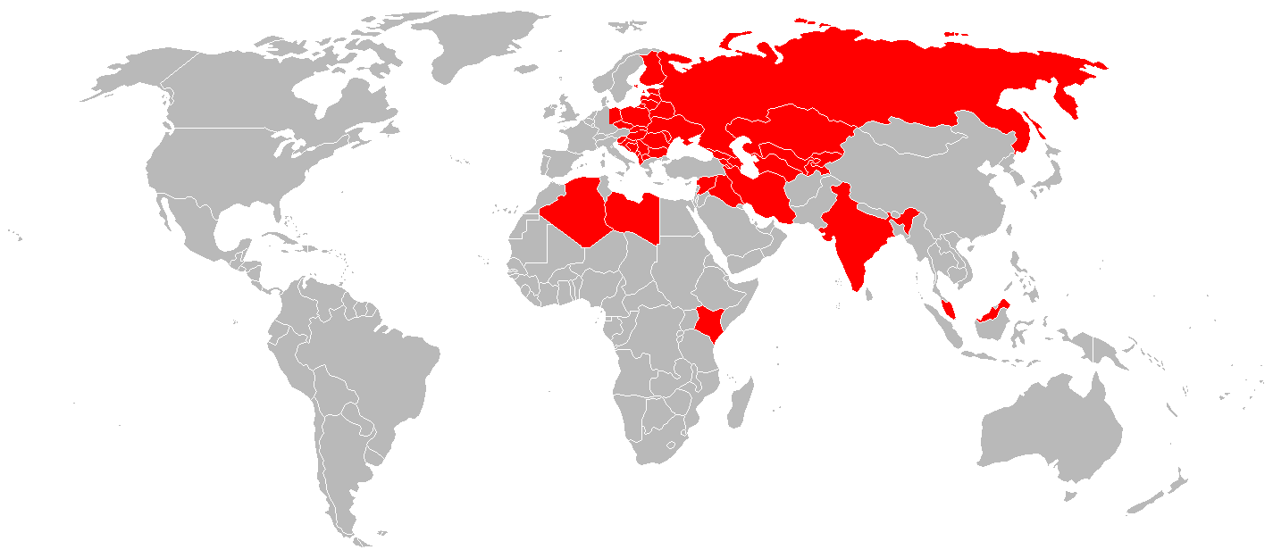 Own work, derivative of image:BlankMap-World.png.